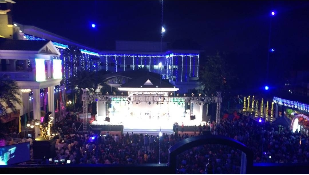 Photos of Lisieux school